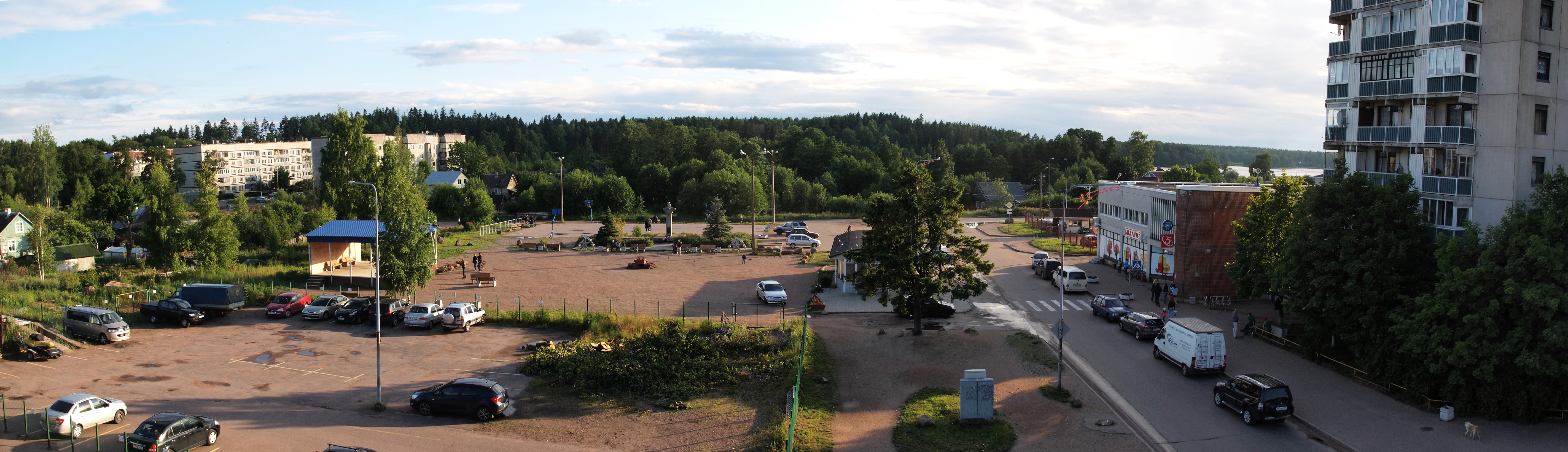 View to downtown Johannes (now Sovetskyi) from a window of hotel Chaika ("Seagull").